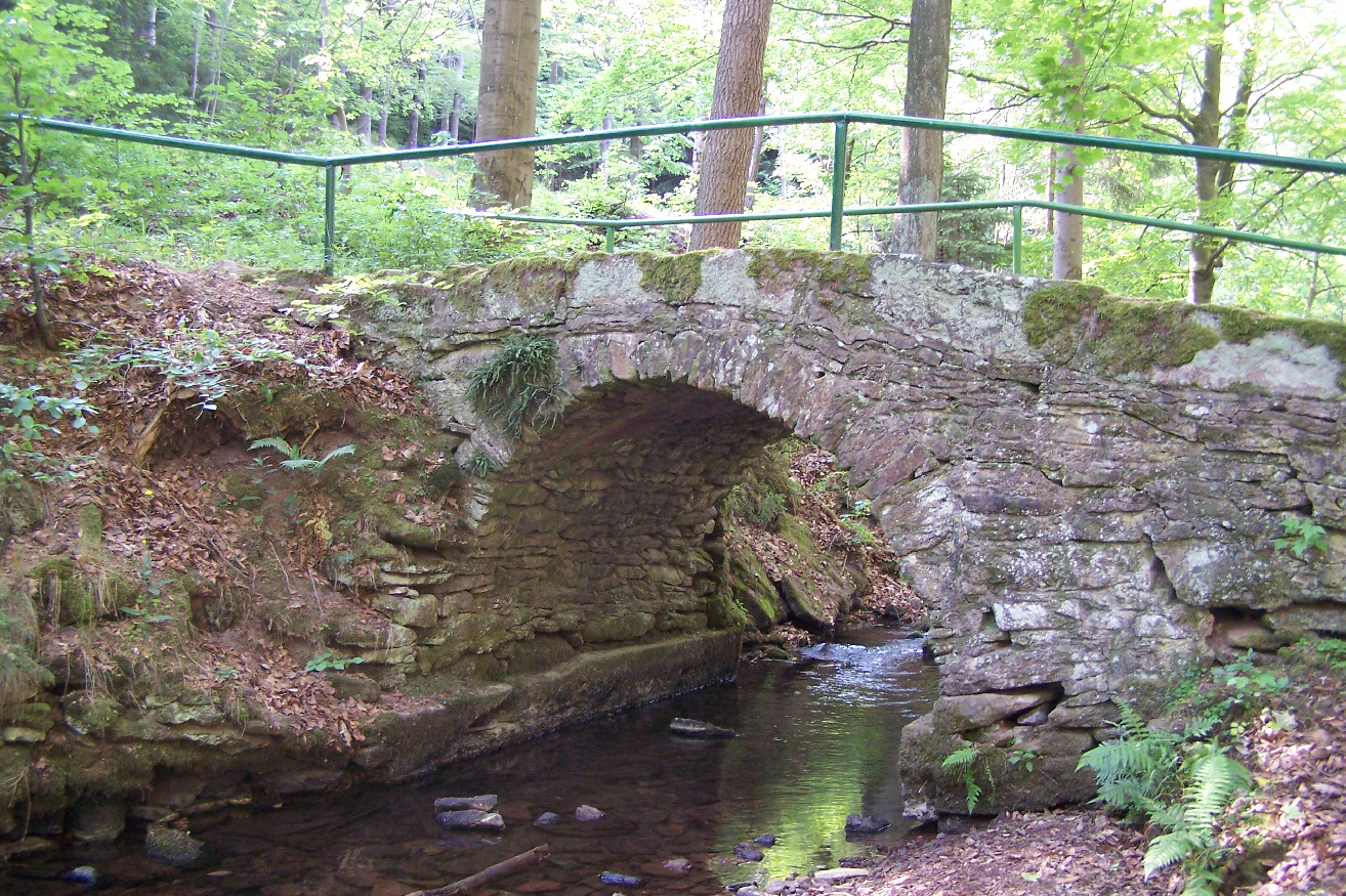 The famous Totenbrücke - a old bridge in the Leina dell near Finsterbergen.